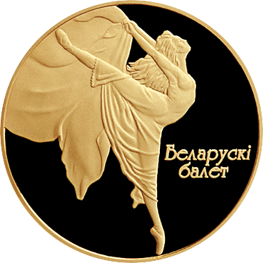 "Belarusian Ballet", Gold commemorative coins, denomination: 200 rubles